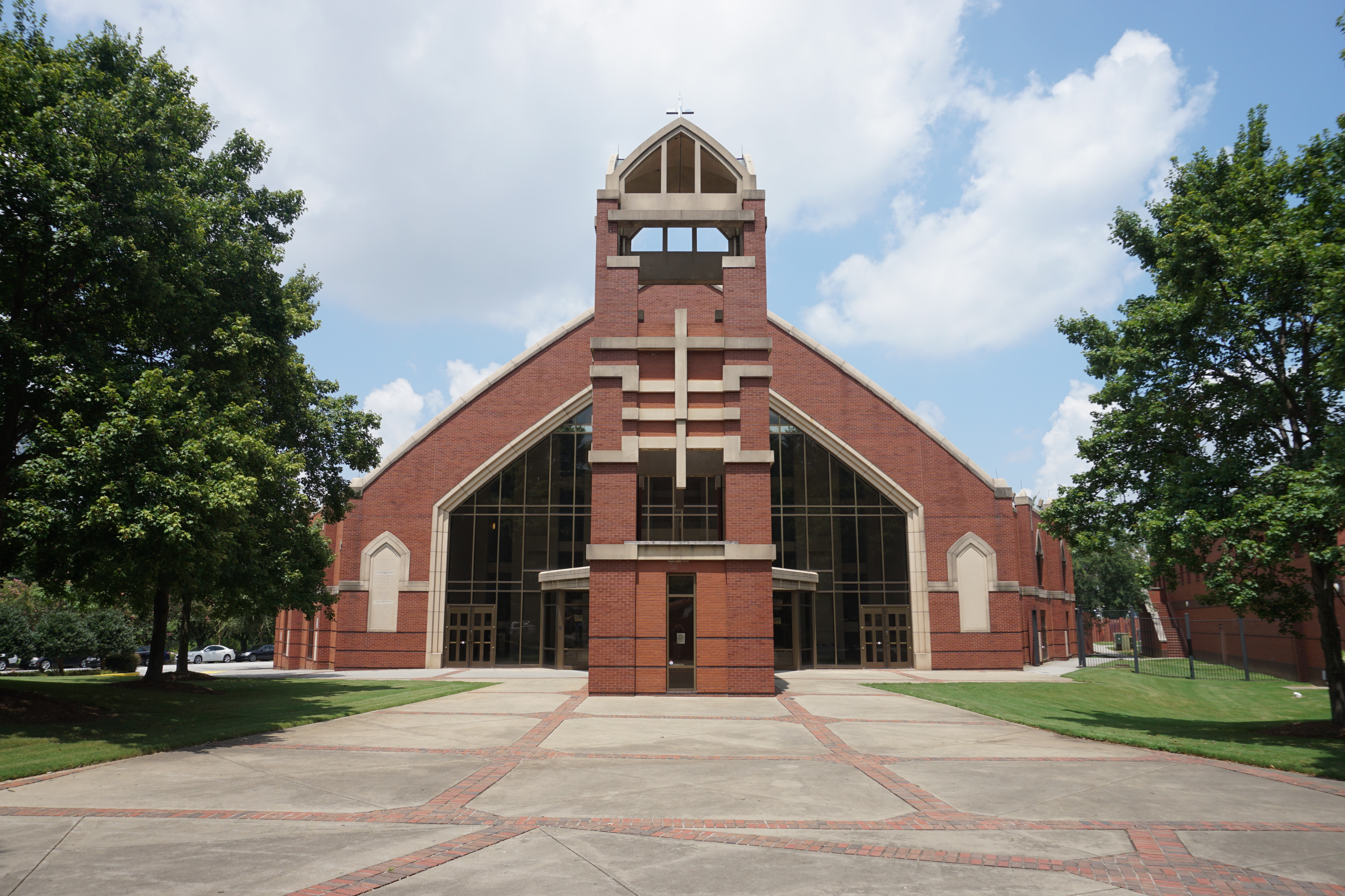 The Ebenezer Baptist Church Horizon Sanctuary at the Martin Luther King Jr. National Historic Site in Atlanta, Georgia (United States).